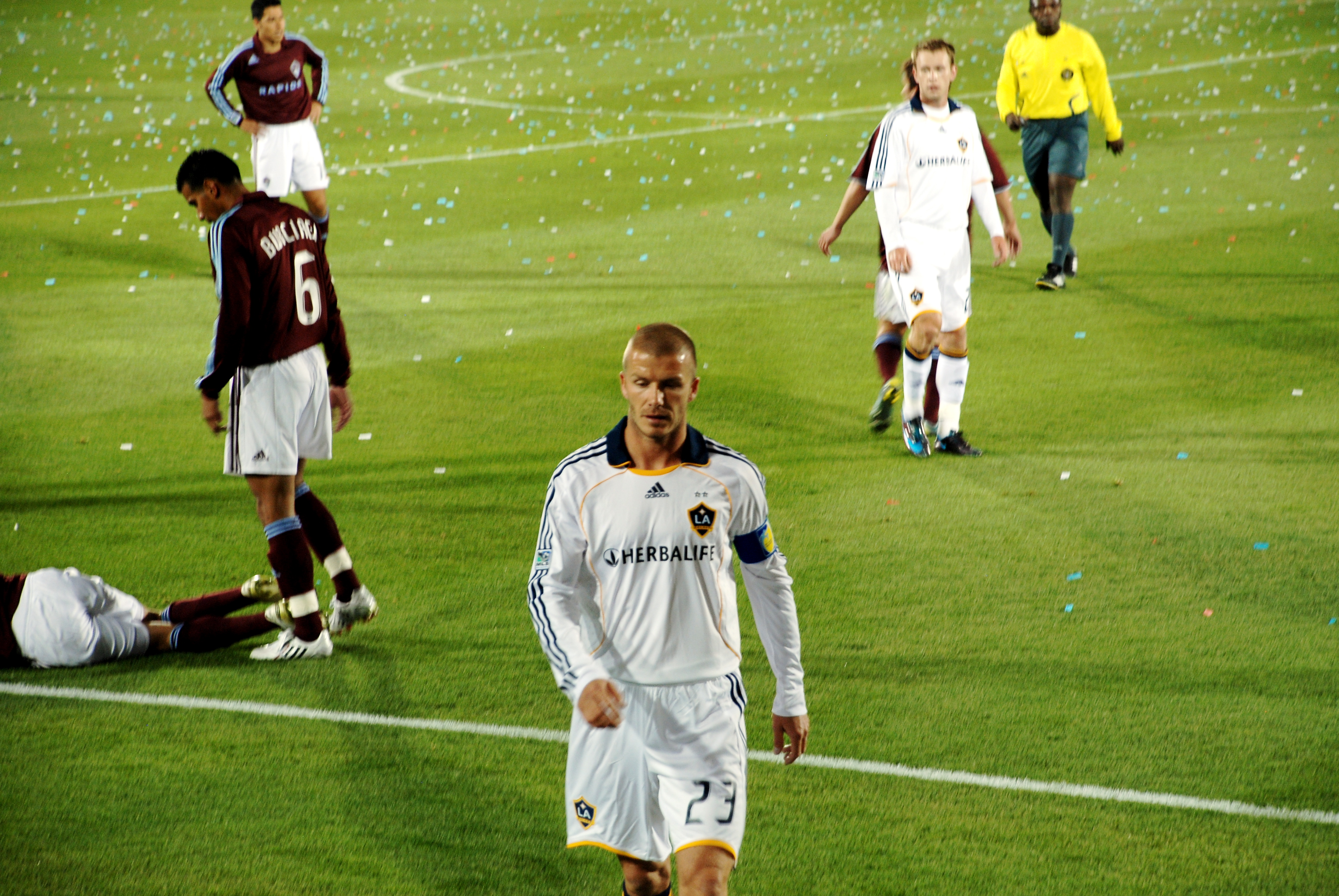 Beckham in the match Colorado Rapids vs. LA Galaxy 3/28/08 Rapids 4 LA 0